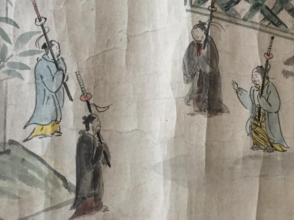 Cochin Chinese swordsmen in the scroll "Chaya Shinroku Kochi toko zukan"